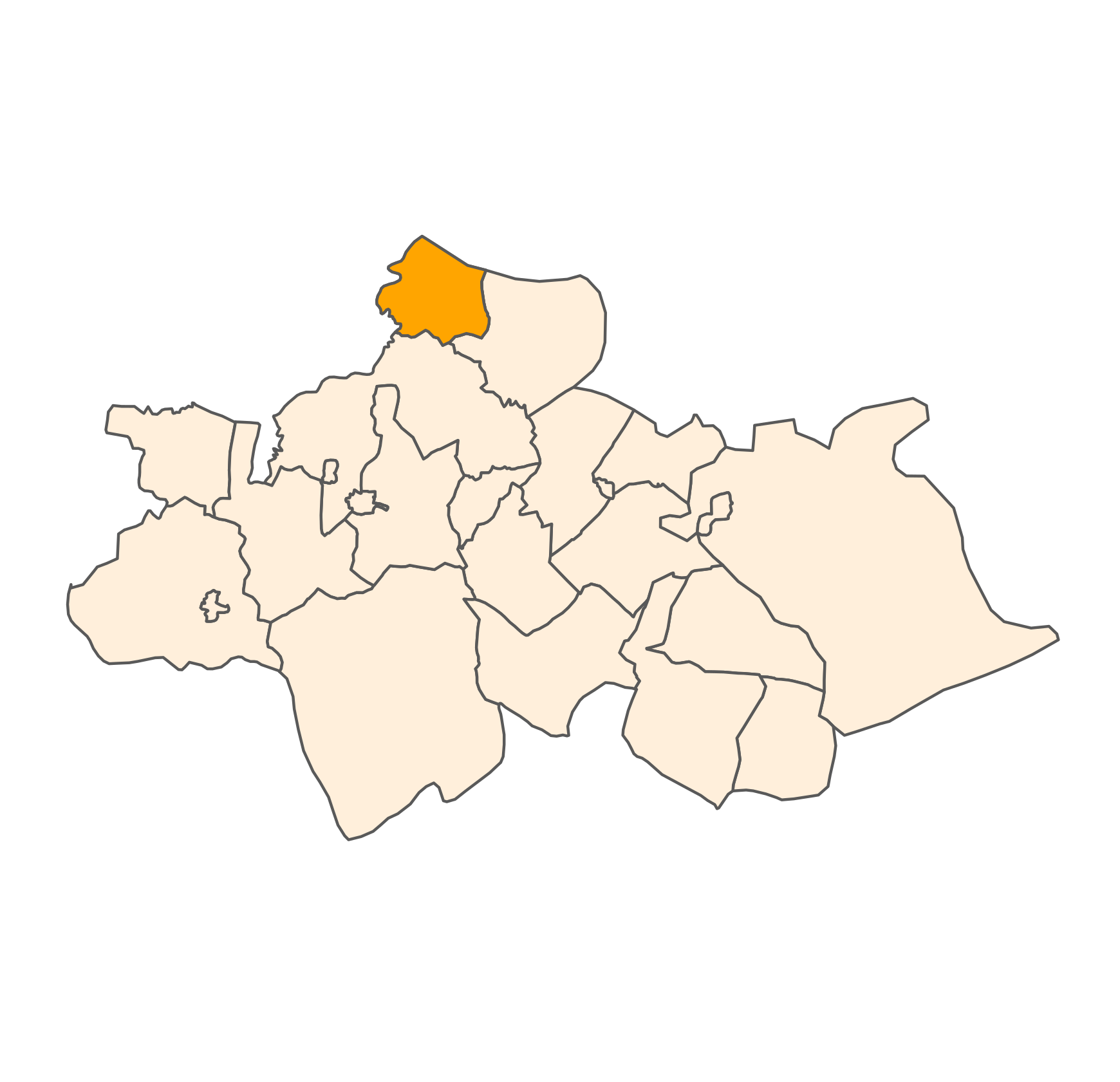 Commune (Orange), Sefrou Province (Antique White)